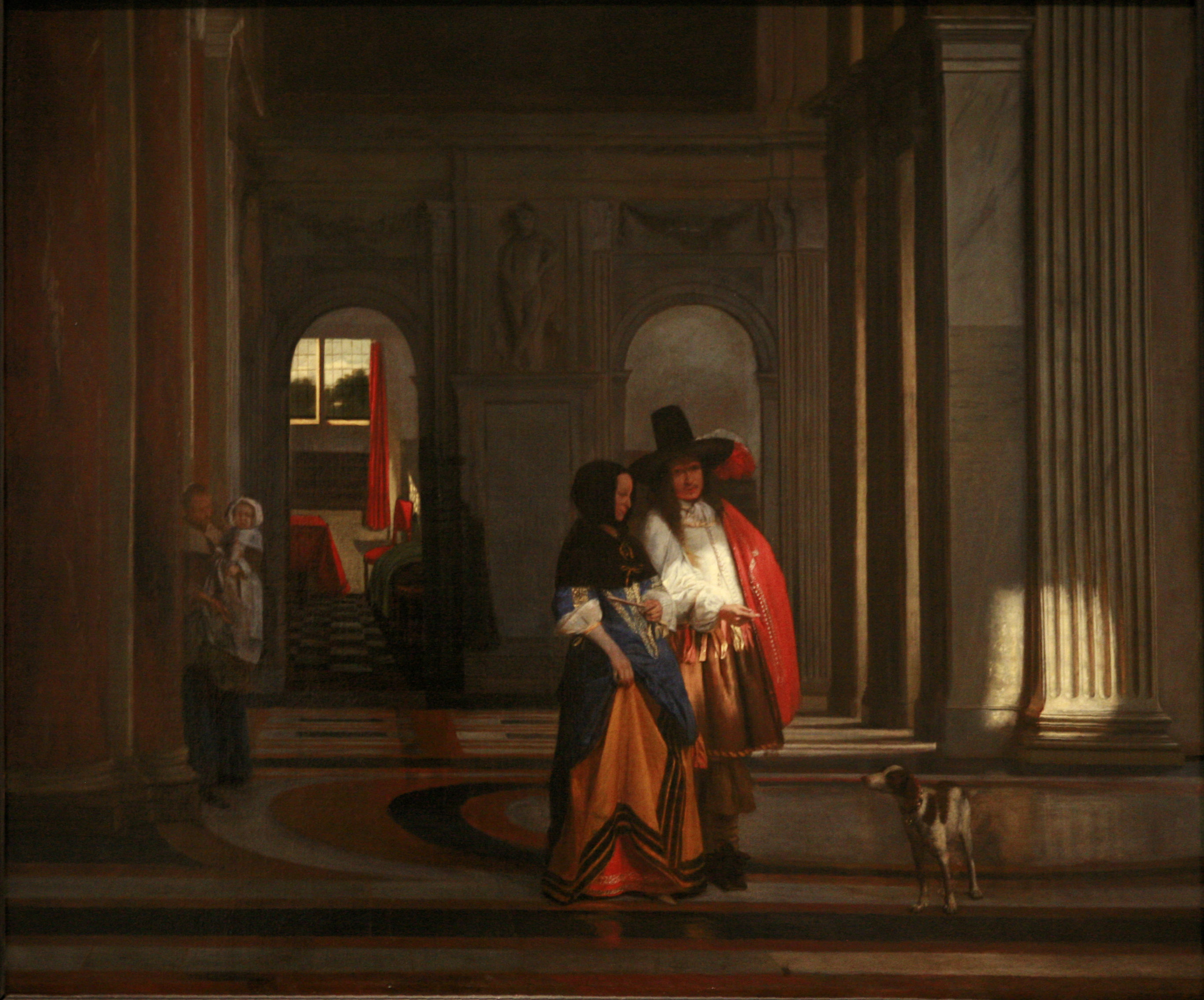 Going for a walk or A Couple Walking in the Citizens' Hall of Amsterdam Town Hall